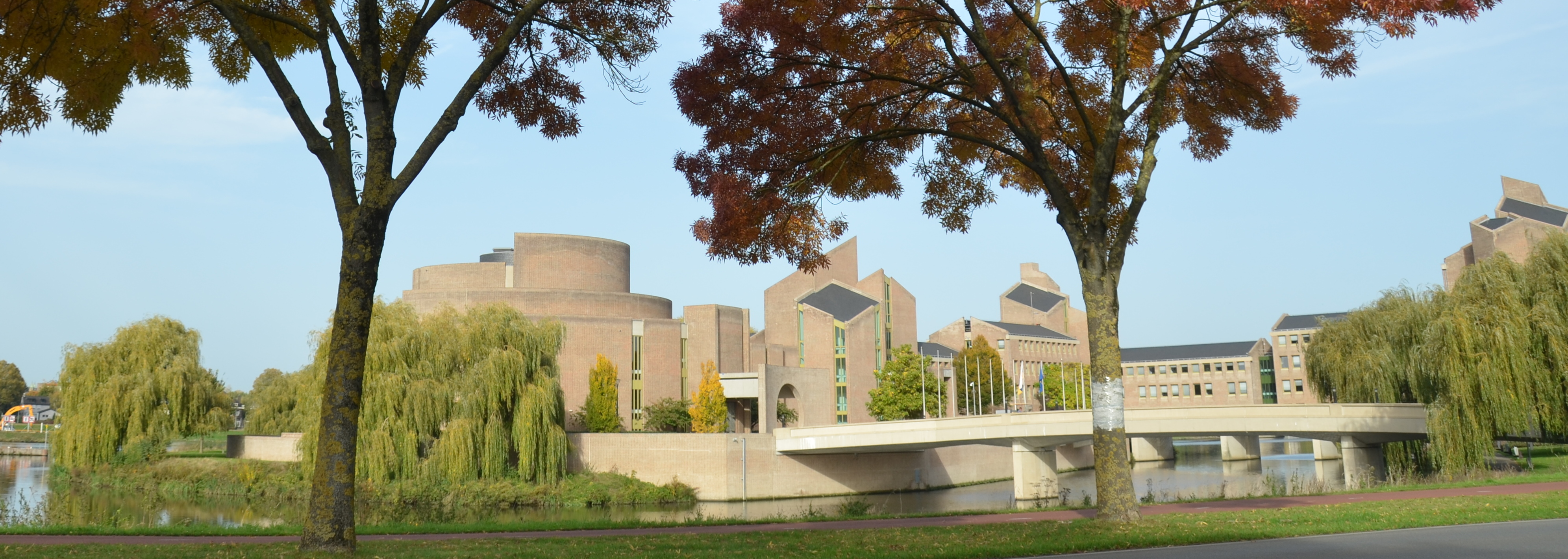 The Provincie counsel building (the "Gouvernement") 1986 designed by architect Snelder along the Maasriver at Maastricht with magnificient coloured trees at 19 October 2012